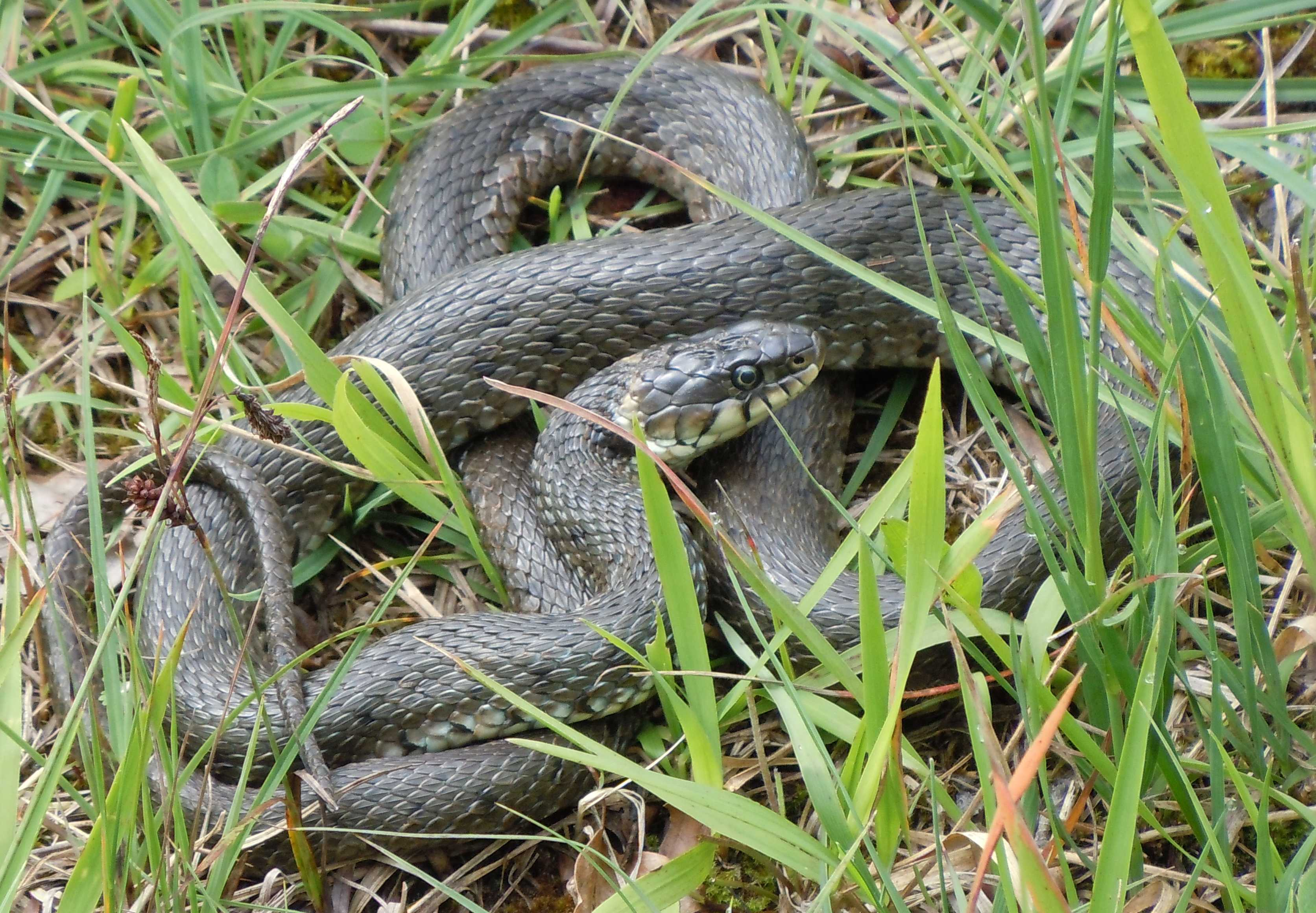 Ring snake in Bavaria